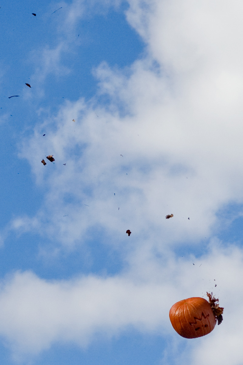 A pumpkin is thrown from a trebuchet in Stanbery Park on November 6, 2010, in Mount Washington, Cincinnati, Ohio